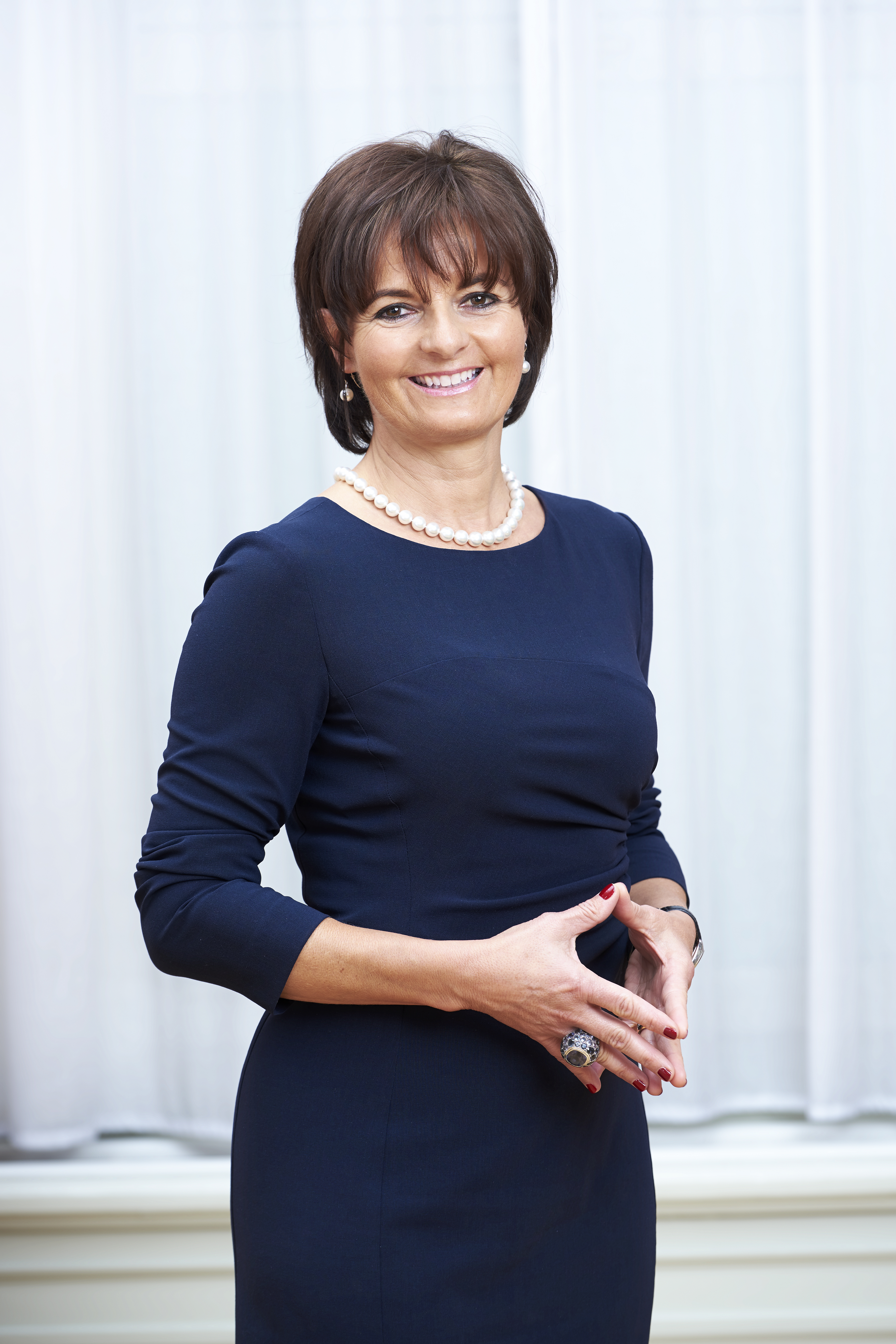 Portrait Ruth Metzler-Arnold